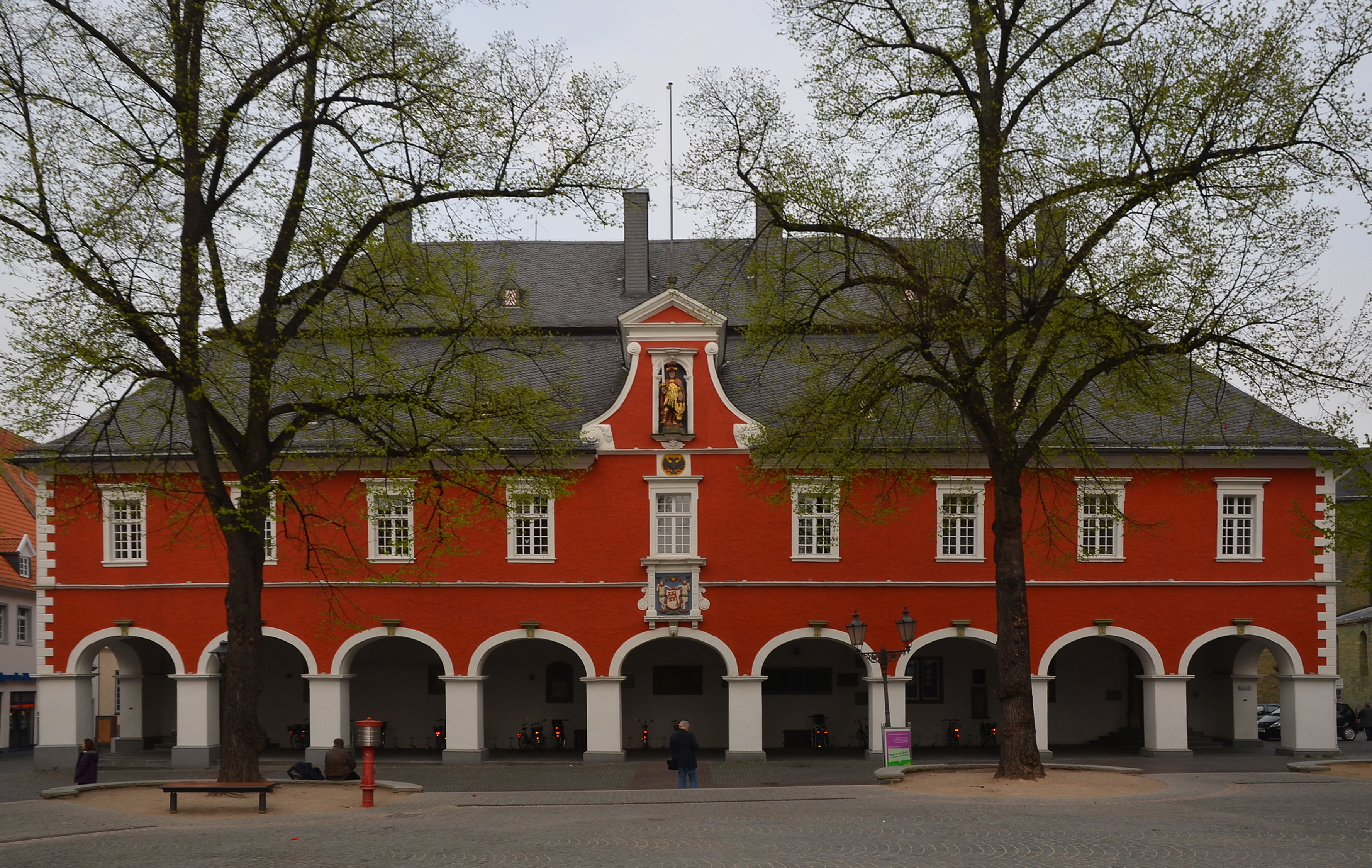 Town Hall, West View, Soest, Germany. This image shows a heritage building in Germany, located in the North Rhine-Westphalian city Soest.